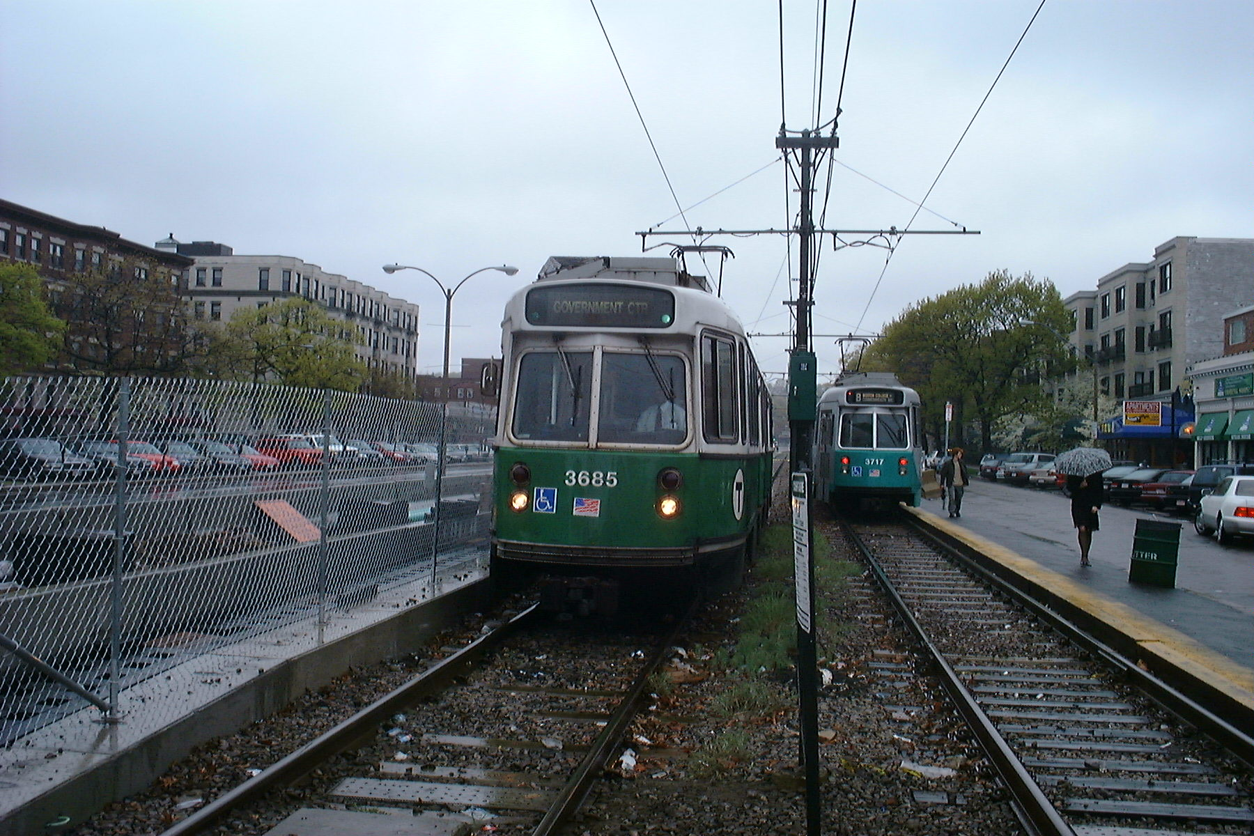 Harvard Avenue station undergoing accessibilty upgrades in April 2002. The inbound platform (left) is being raised to allow level boarding on low-floor streetcars; at right is the temporary outbound platform.